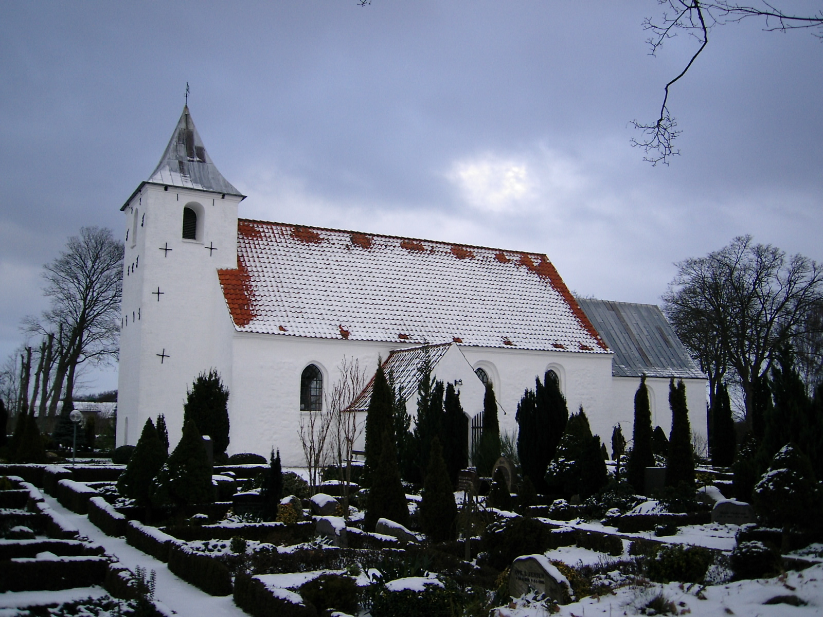 The Church of Sdr. Vissing, Denmark, seen from south-south-west.